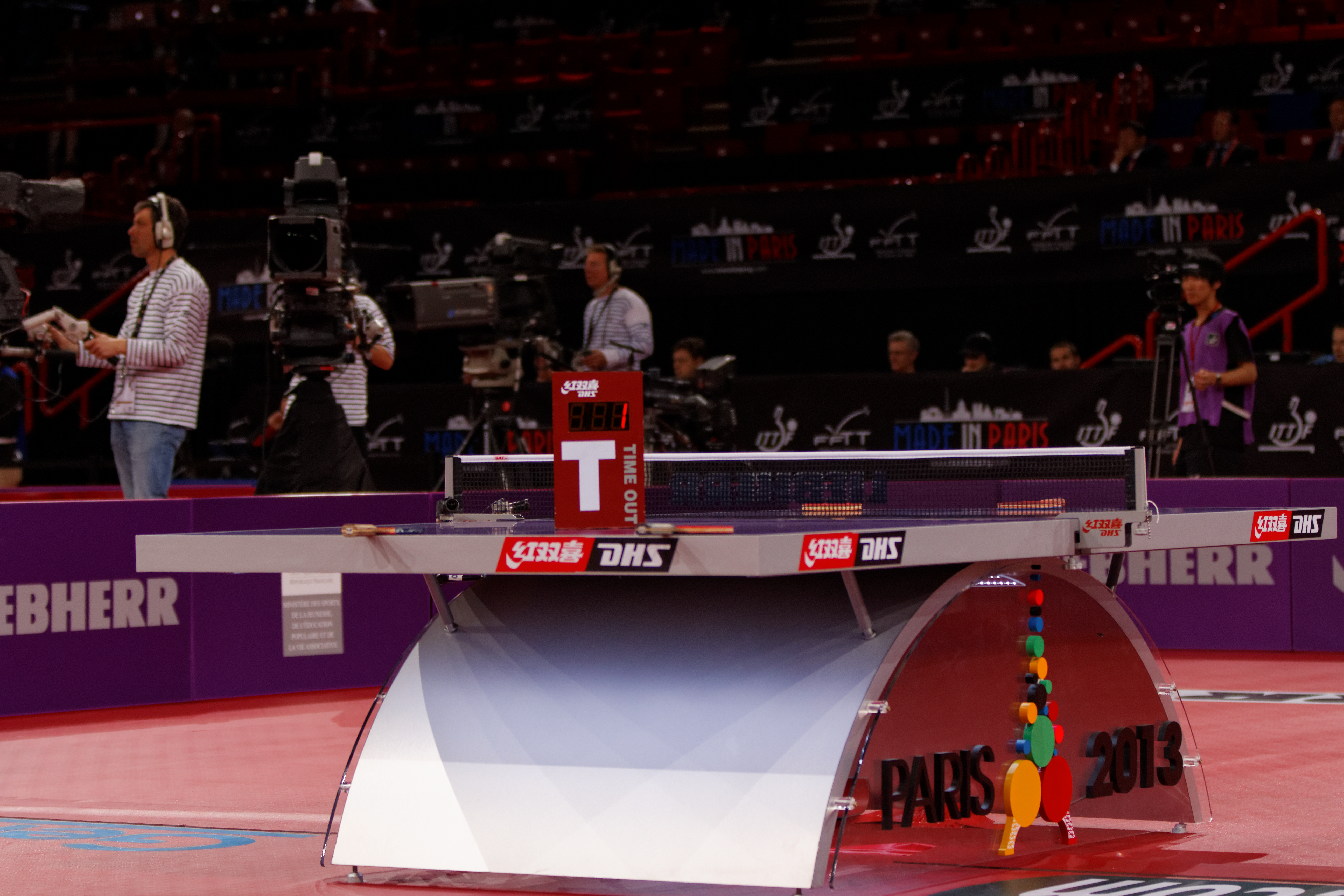 2013 World Table Tennis Championships, Paris. Mixed Doubles Semifinal. Lee Sang-Su and Park Young-Sook vs Wang Liqin and Rao Jingwen